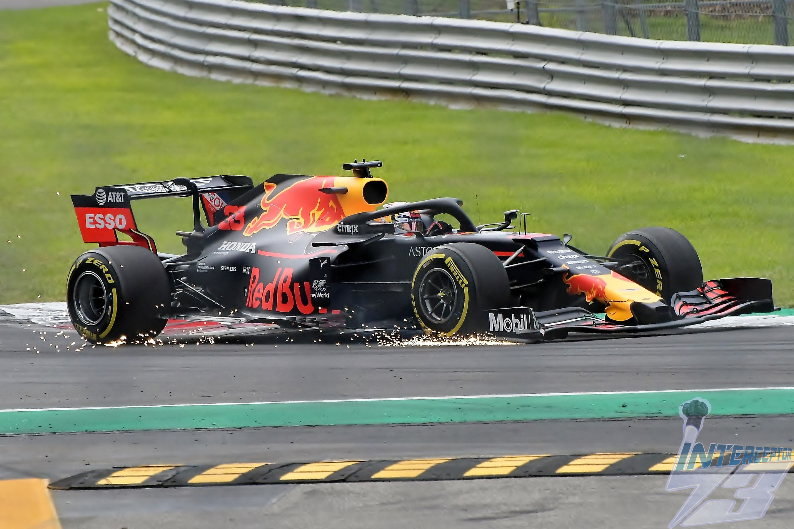 Max Verstappen, Red Bull-Honda RB15, 2019 Italian Grand Prix, Monza, 8th September